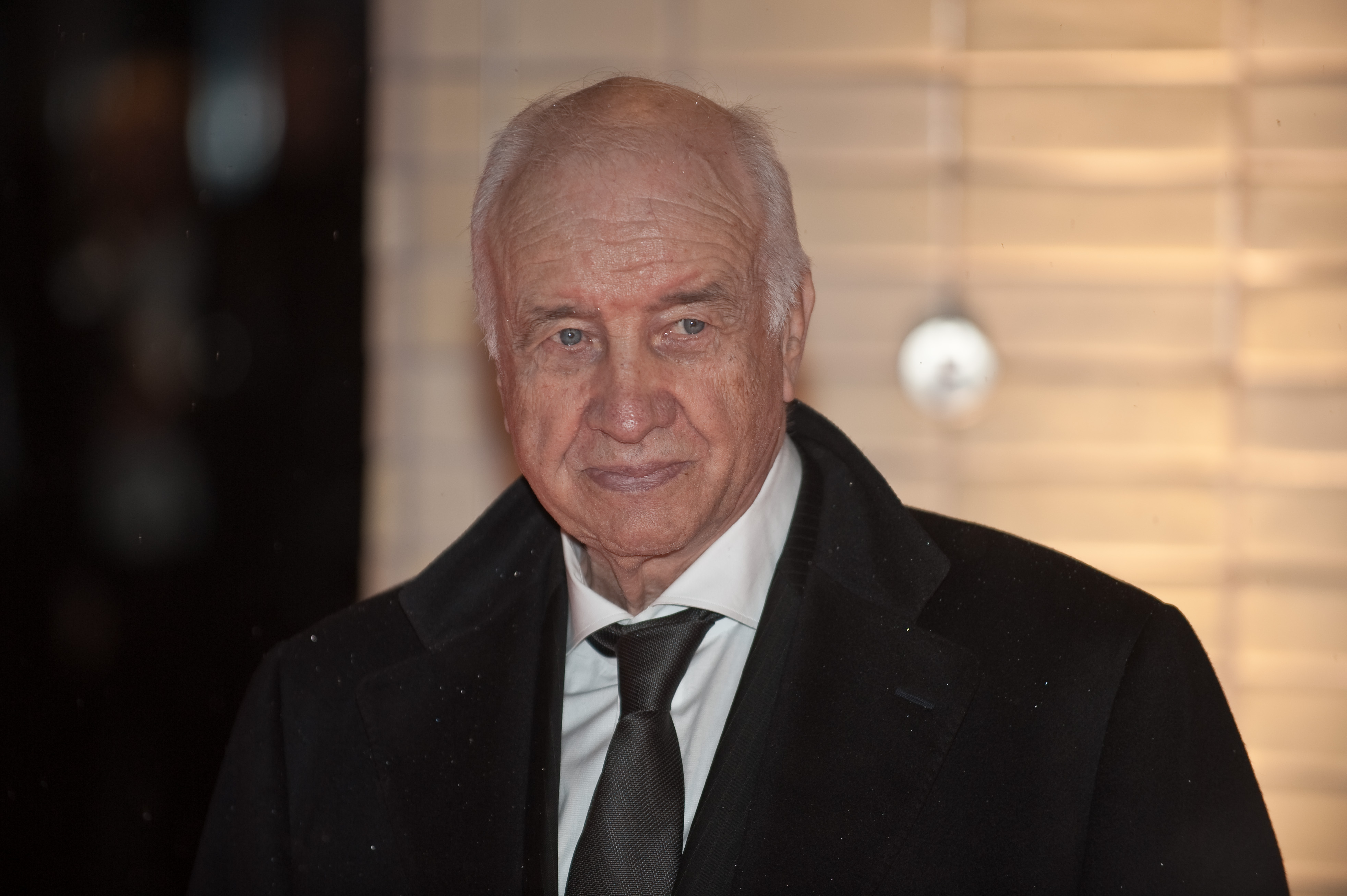 German actor Armin Müller-Stahl, arriving at the after show opening party of the 60th Berlin International Film Festival